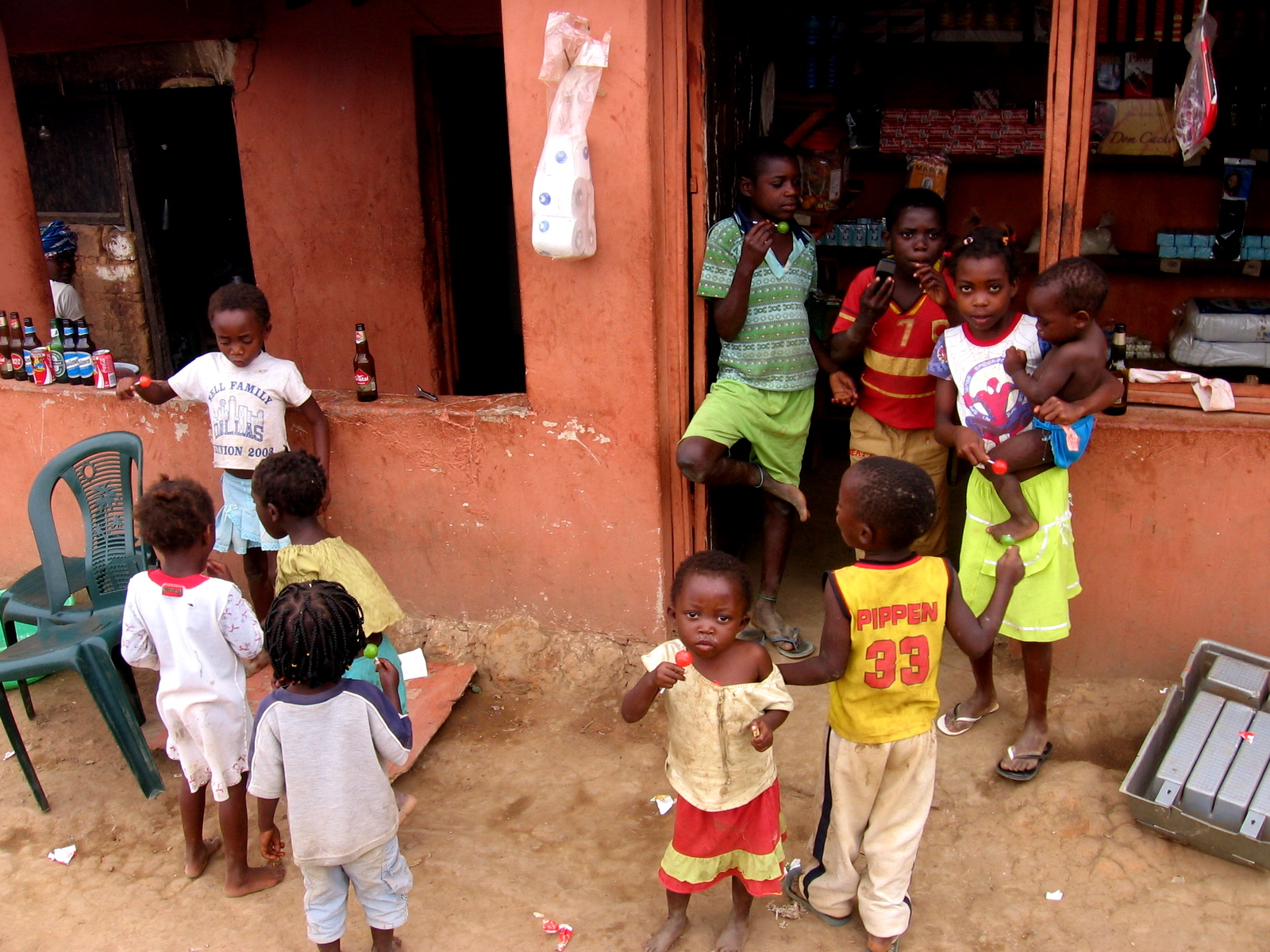 Children in Angola